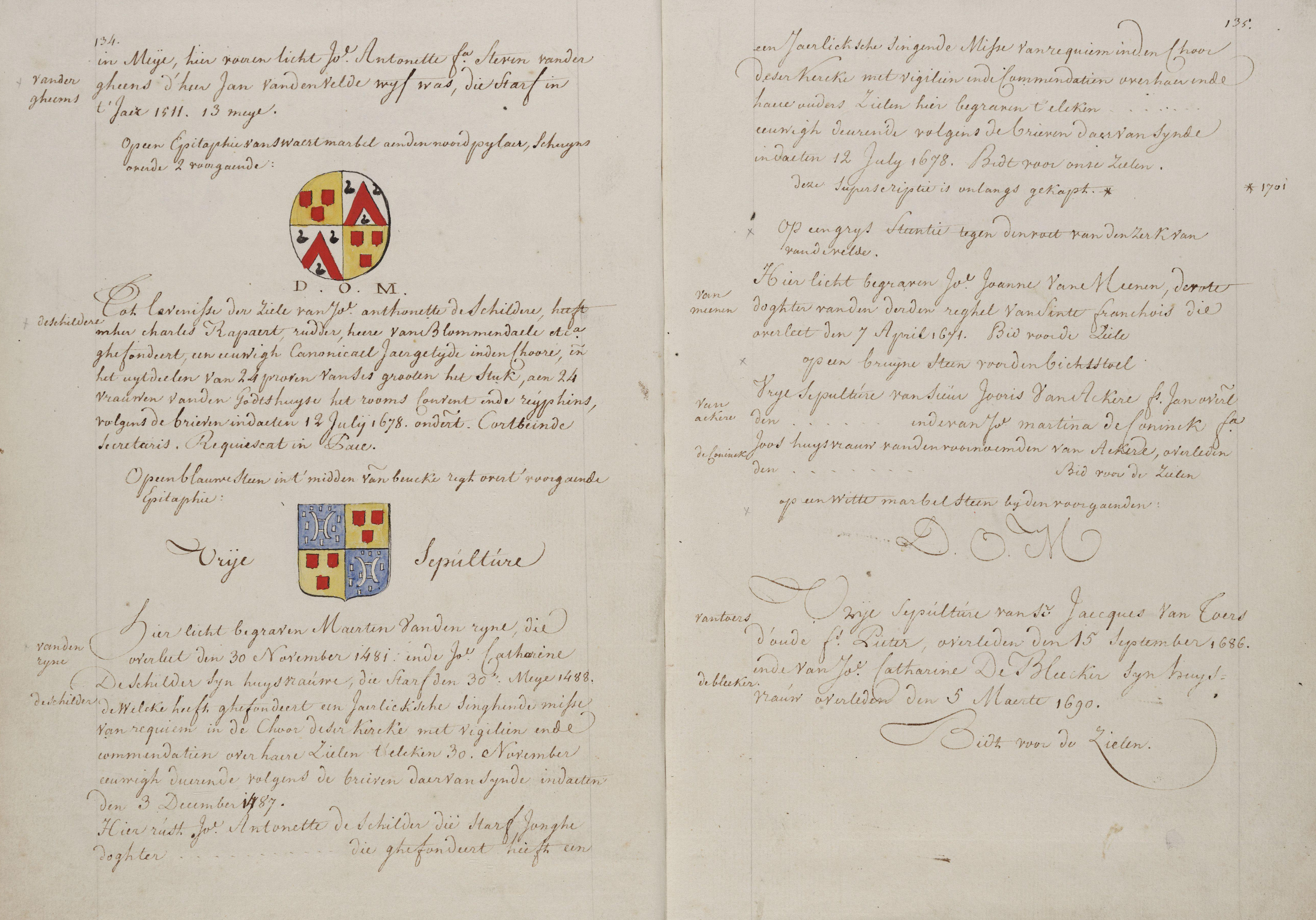 pagina uit het Handschrift De Hooghe